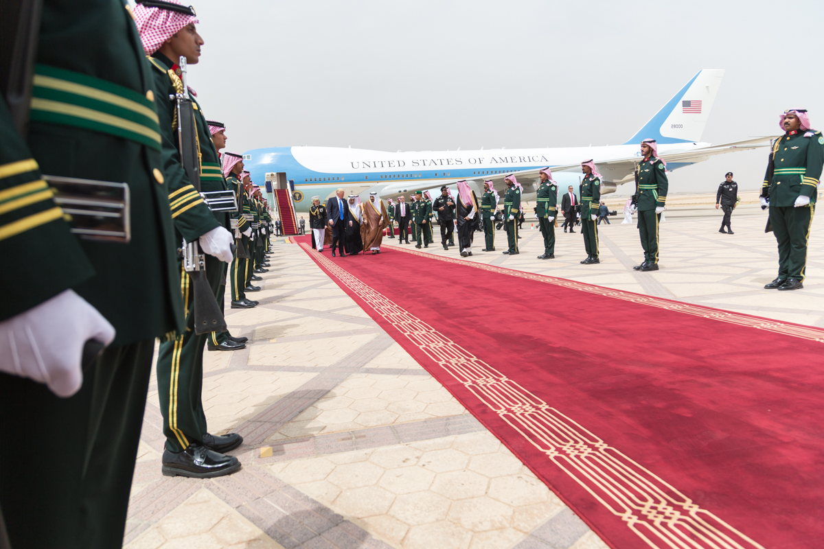 President Donald Trump and First Lady Melania Trump receive a red carpet welcome by King Salman bin Abdulaziz Al Saud of Saudi Arabia and his official delegation, Saturday, May 20, 2017, on their arrival to King Khalid International Airport in Riyadh, Saudi Arabia. (Official White House Photo by Shealah Craighead)